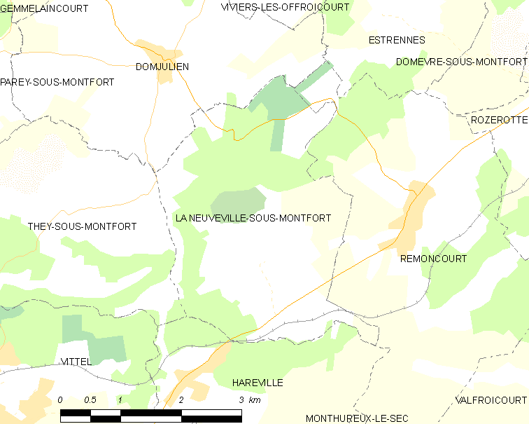 Map of French municipality La Neuveville-sous-Montfort